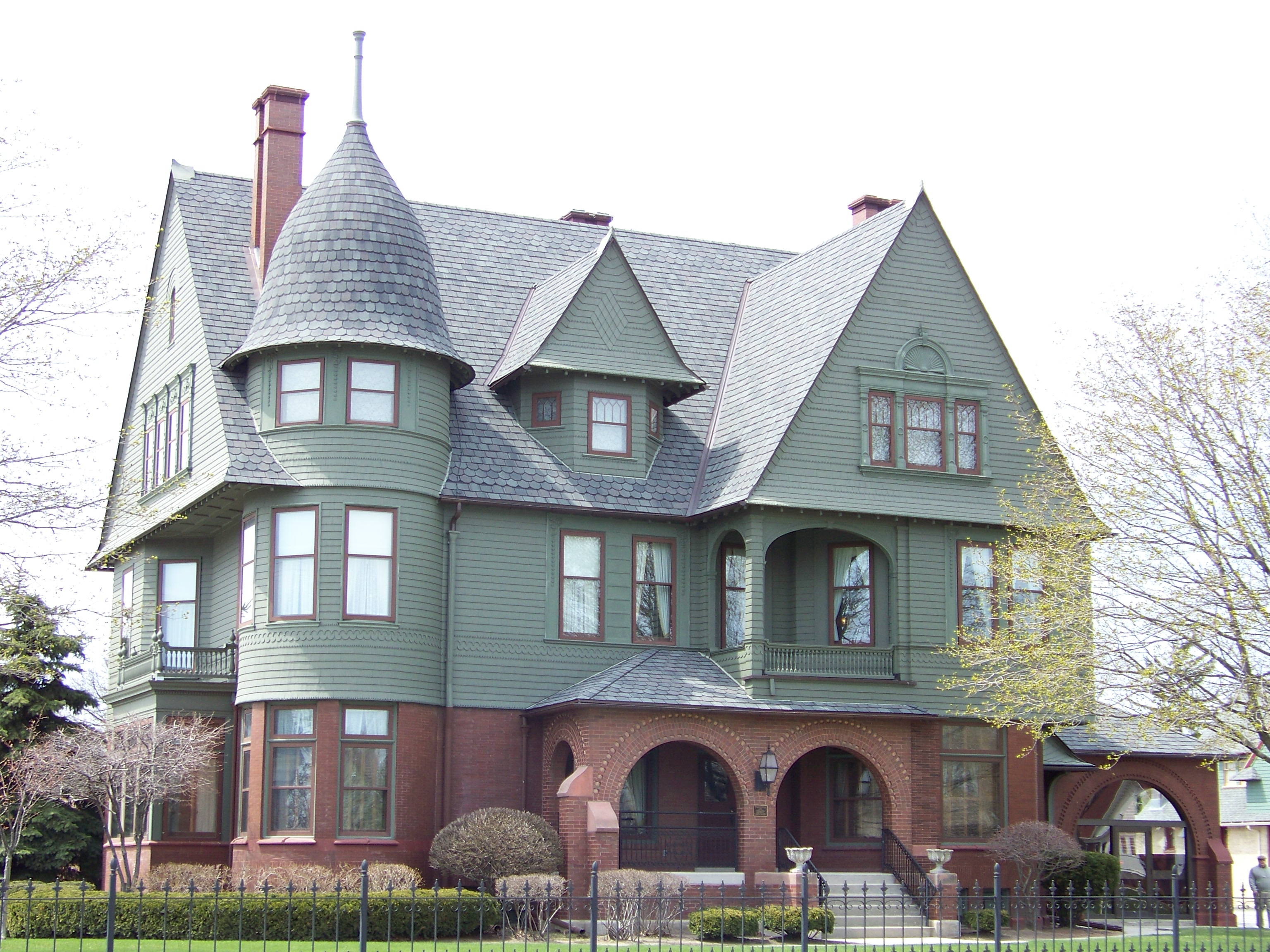 Rahr-West Art Museum in Manitowoc, WI (view from east). It is listed on the National Register of Historic Places as the Joseph Vilas, Jr., House.